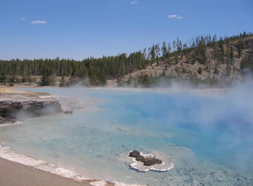 Excelsior Geyser, Yellowstone NP, Wyoming